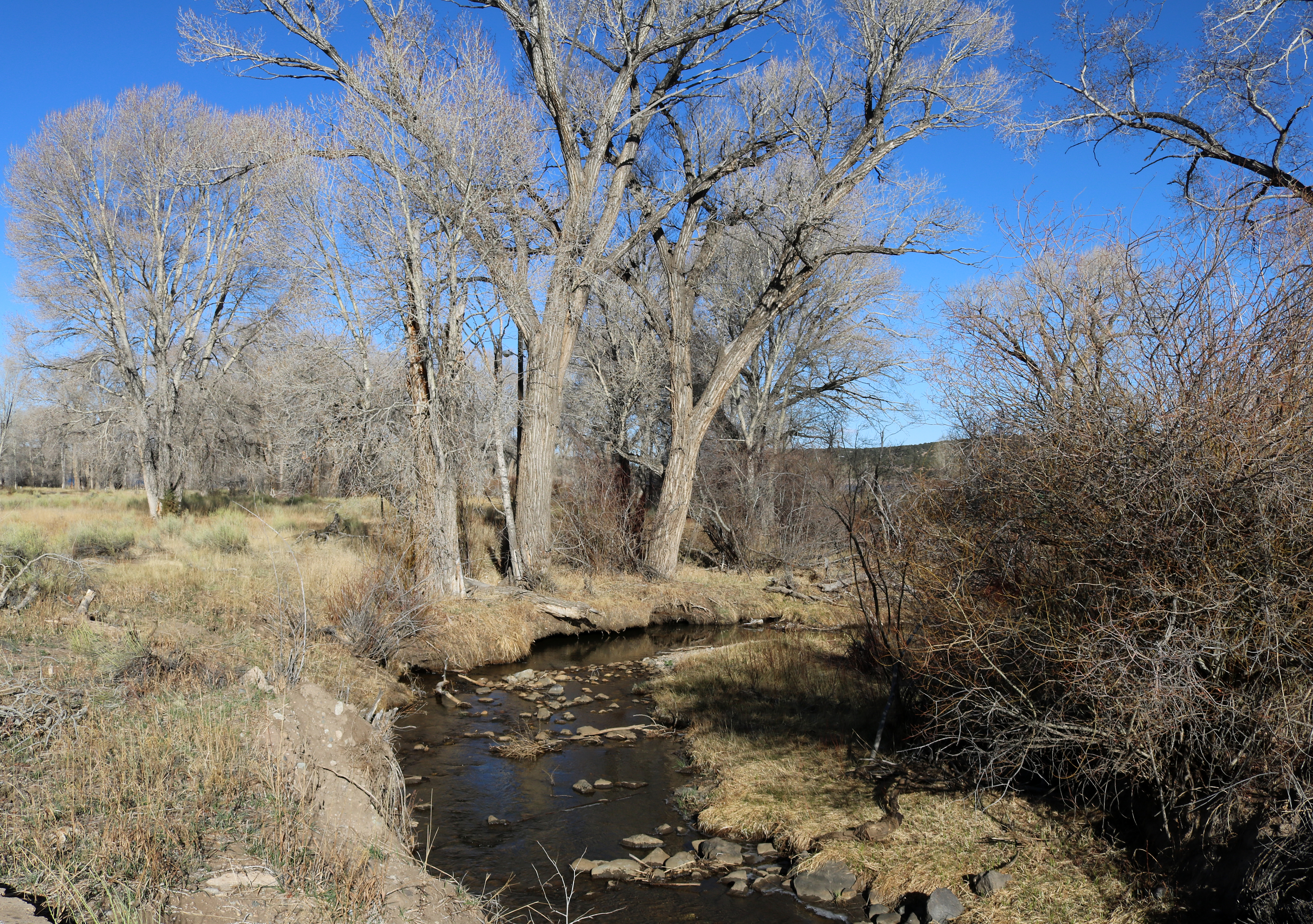 Trinchera Creek in Costilla County, Colorado. The view is from a bridge on County Lane 6, a couple hundred yards before the creek empties into Mountain Home Reservoir.